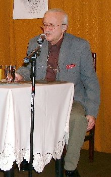 This image has been copied from the source with the permision of webmaster (and with the consent of the director of the service). The permission was granted to Stan Zurek (Zureks) via email from Mirosław Domański Jan Tadeusz Stanisławski